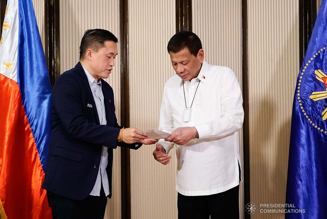 President Rodrigo Roa Duterte is assisted by Senate Committee on Sports Chair Senator Christopher "Bong" Go as he distributes the incentives to the Filipino athletes who have brought home medals from various international competitions during their meeting at the Malago Clubhouse in Malacañang on October 16, 2019. KING RODRIGUEZ/PRESIDENTIAL PHOTO